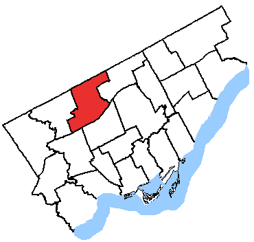 Map of the York Centre electoral district. Based on Earl Andrew's :Image:Ct04.PNG and :Image:St04.PNG, created by SimonP.